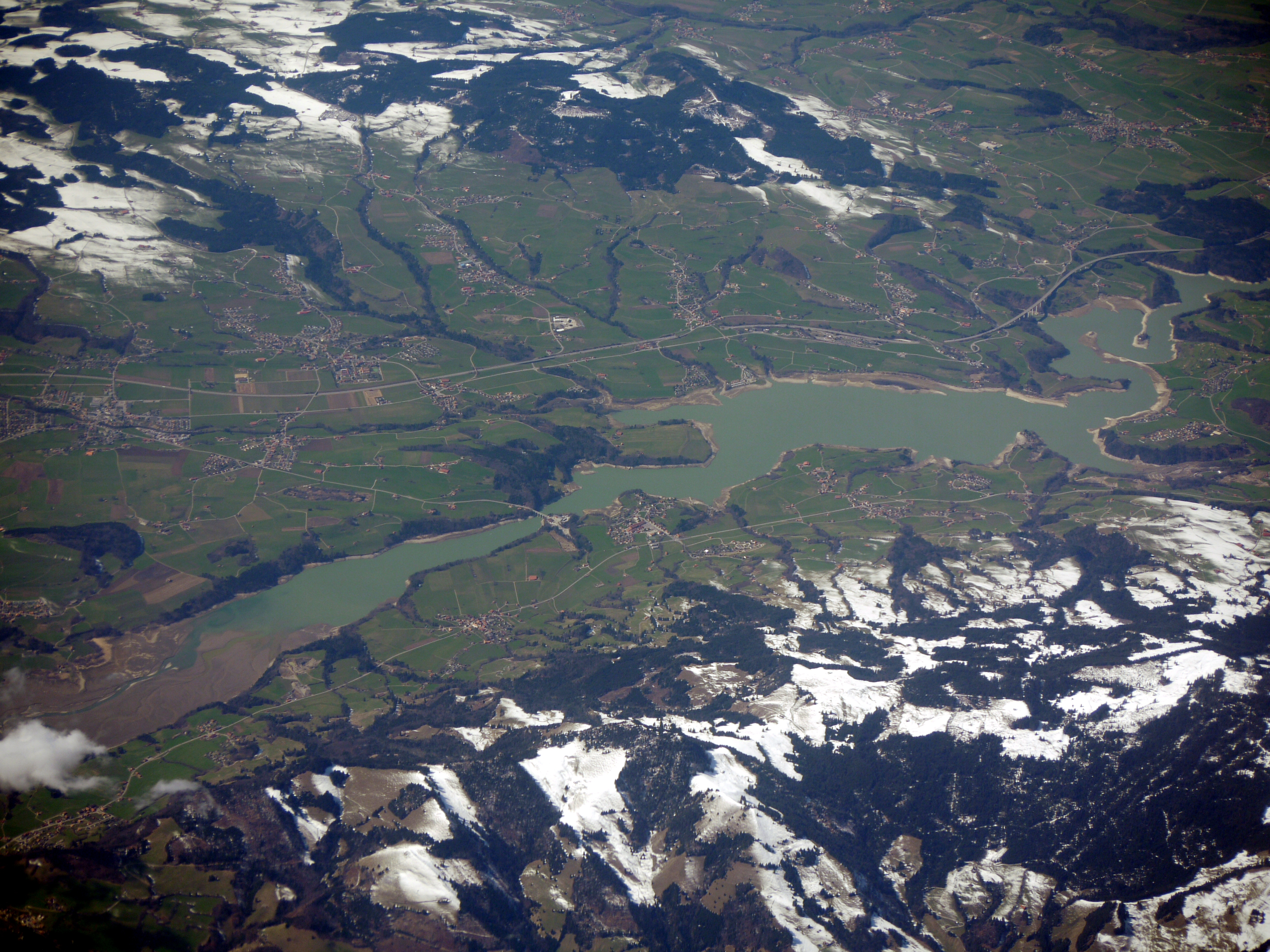 The 'lac de la Gruyère', photograph taken from the sky, on the fly line between Marseille and Stockholm.